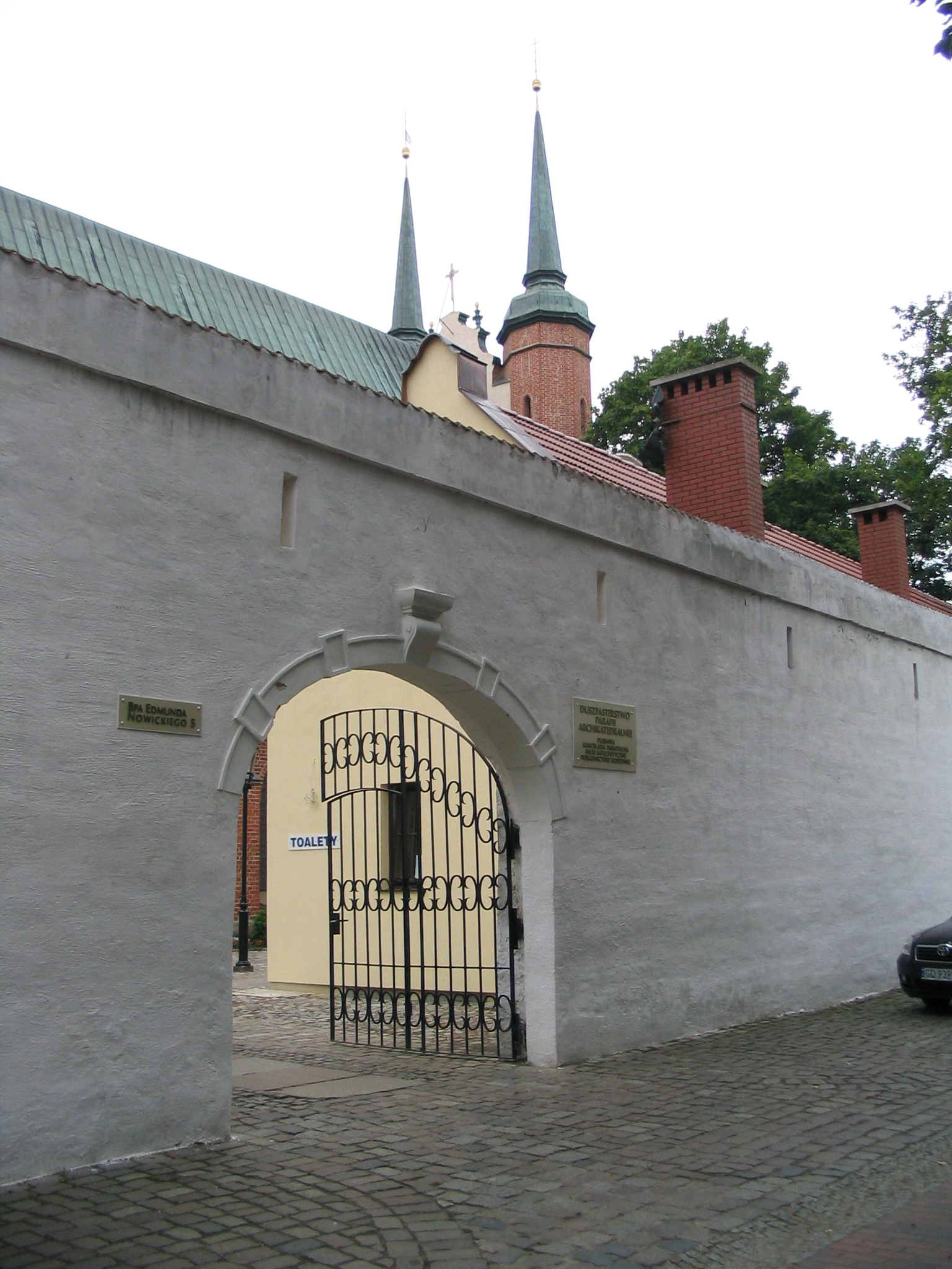 Oliwa Cathedral